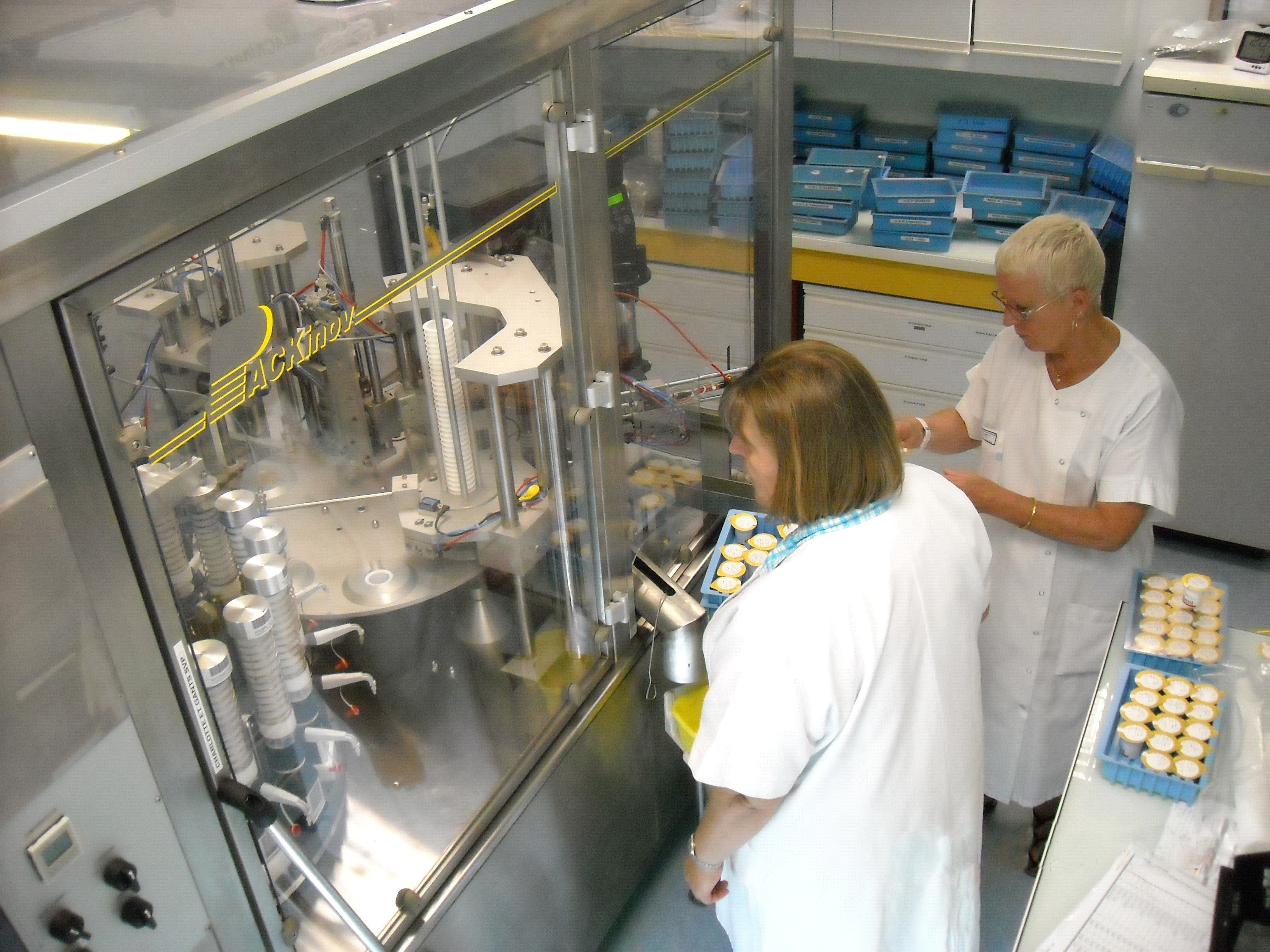 automated apparatus to prepare liquid oral pharmaceutical doses